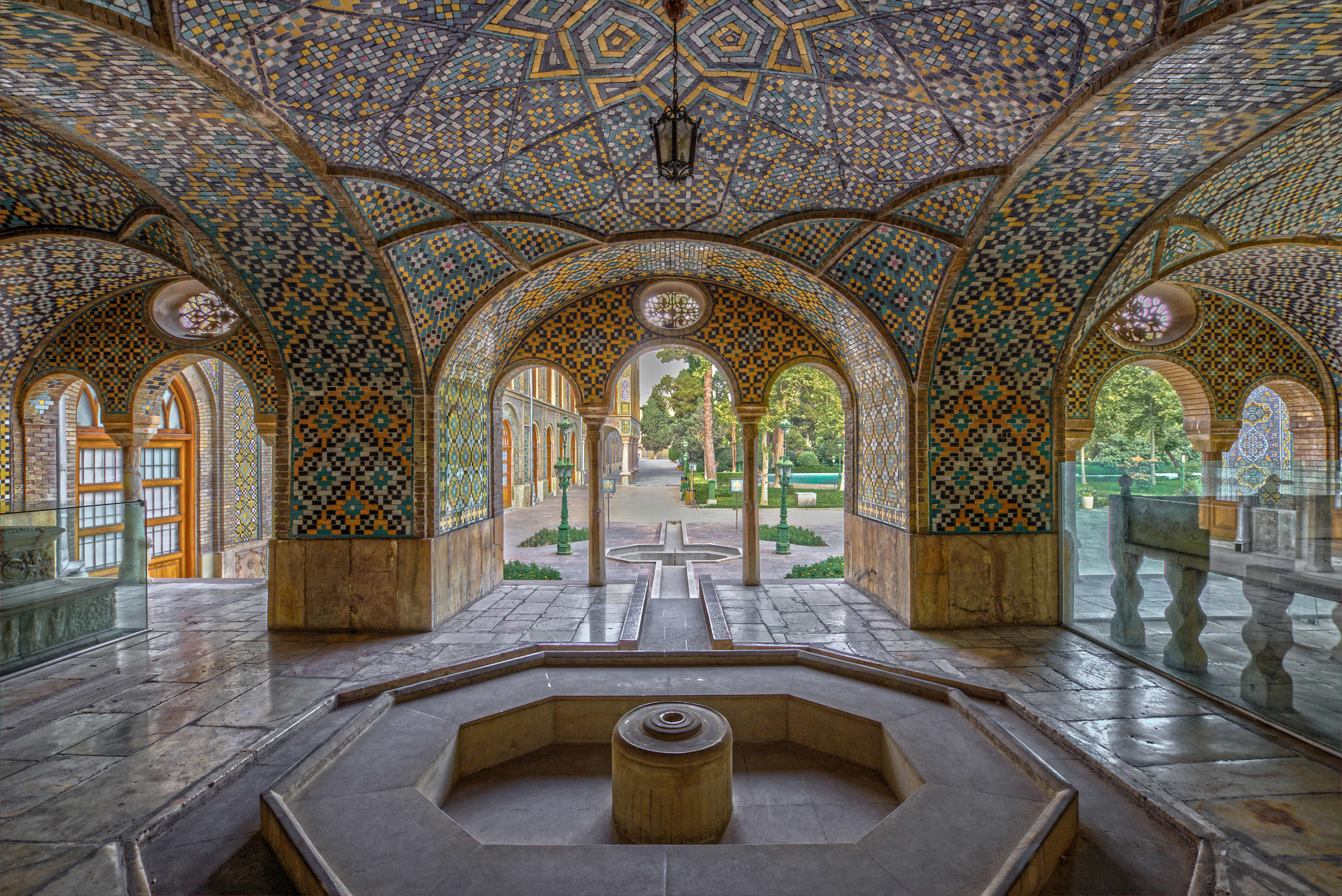 The photo is shot in Golestan Palace and the area is named Khalvate Karimkhani. The water of the pool originates from underground waters and helps to moisturizes and cool the area so it makes here a perfect location for rest. On the left side, there is a marble-built bed which kings of Qajar Dynasty could lounge on it and soak up the lush scenery.